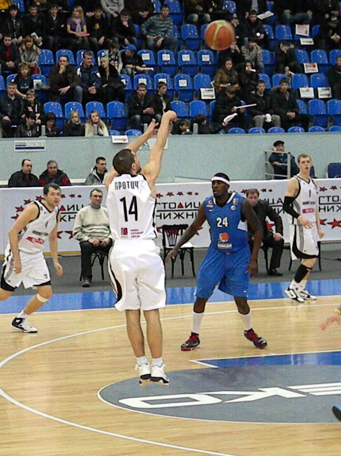 3-point throw by Nemanja Protić in the game between BC Nizhny Novgorod and BC Enisey Krasnoyarsk on March 26th, 2011